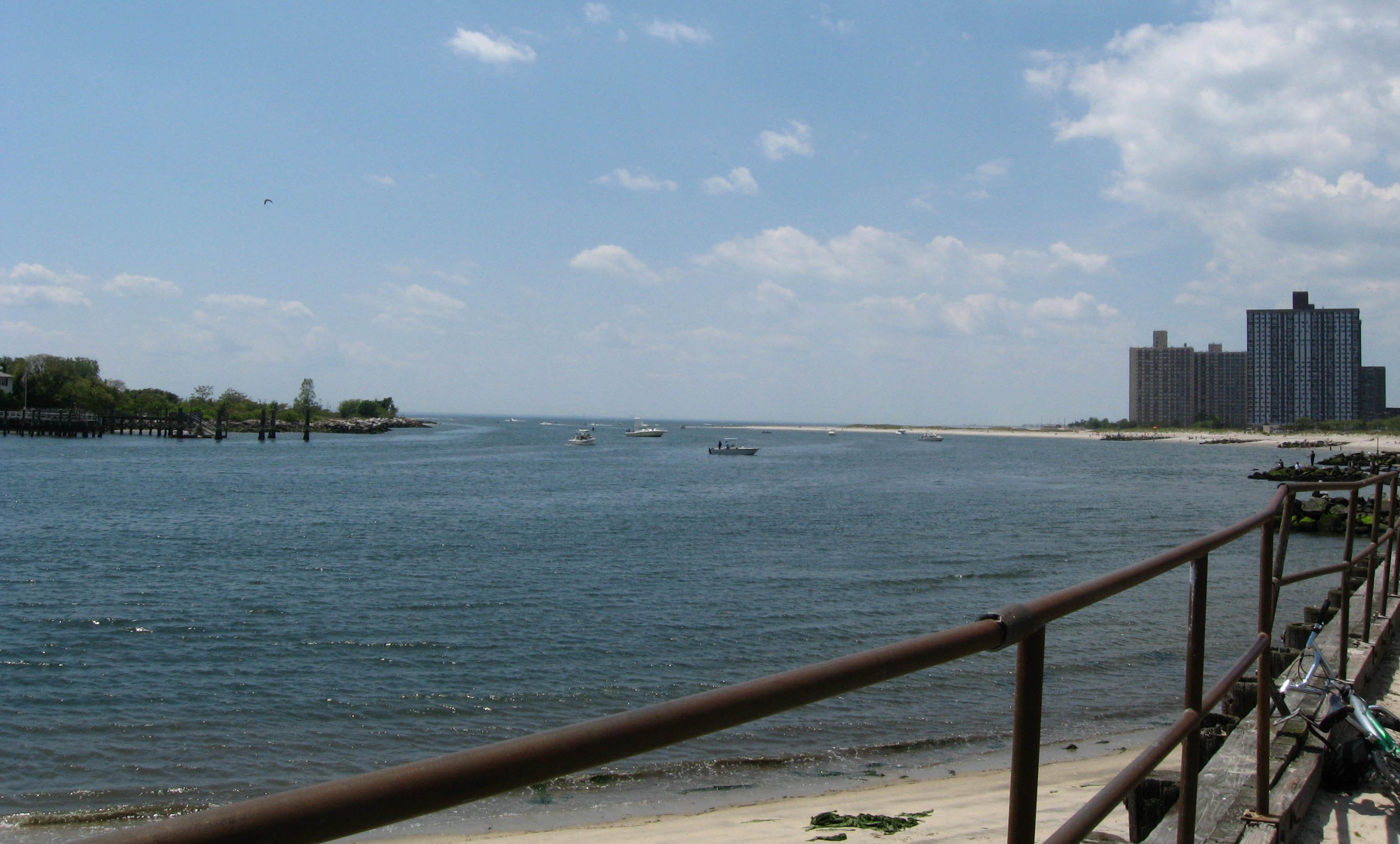 Looking southwest along East Rockaway Inlet on a sunny early afternoon. Silver Point Park in Atlantic Beach, New York on left; Far Rockaway on right. See also File:E Rockaway Inlet bridge jeh.JPG